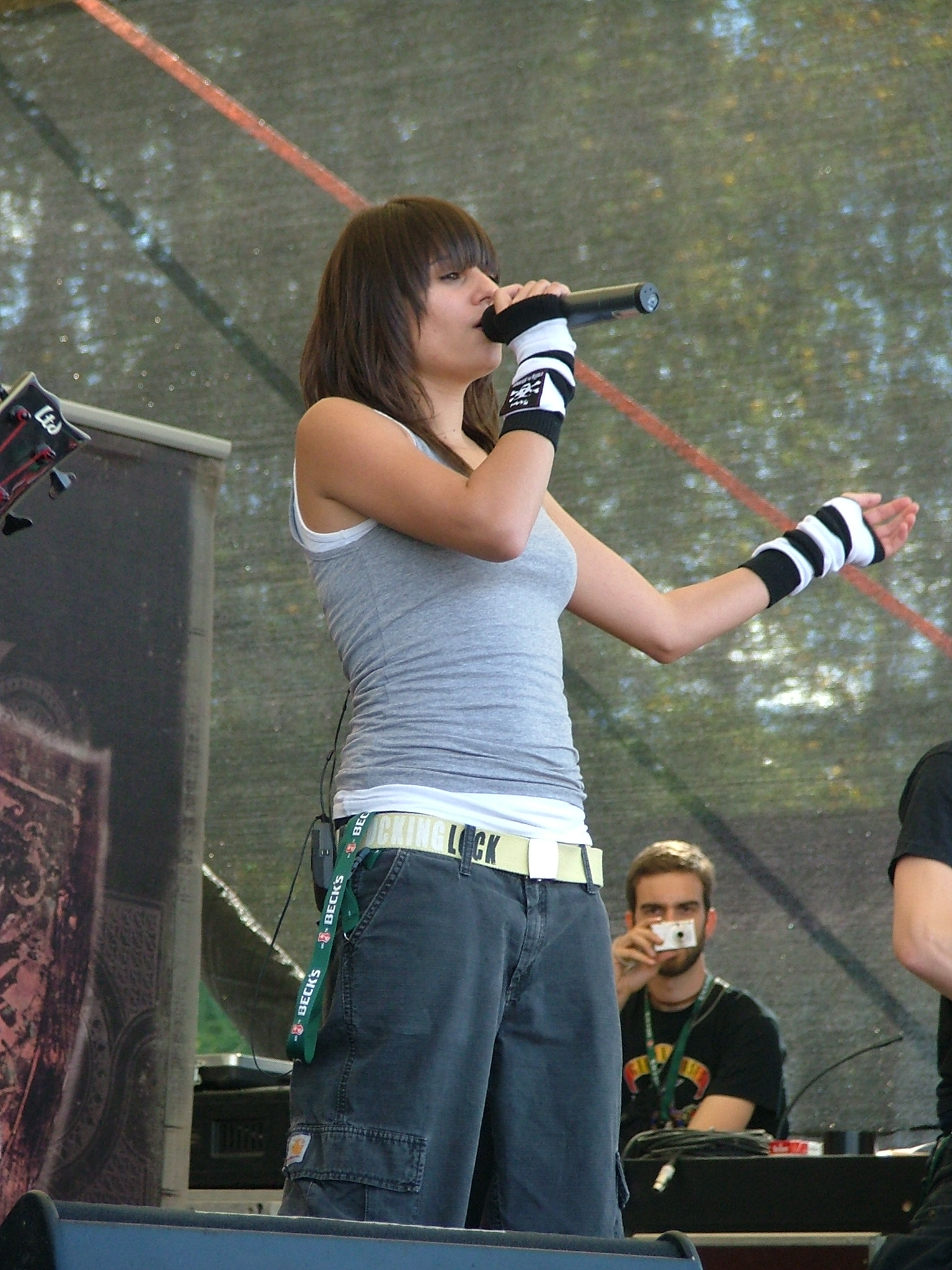 German melodic death metal band Deadlock at 'Rock the Lake' in Finkenstein am Faaker See